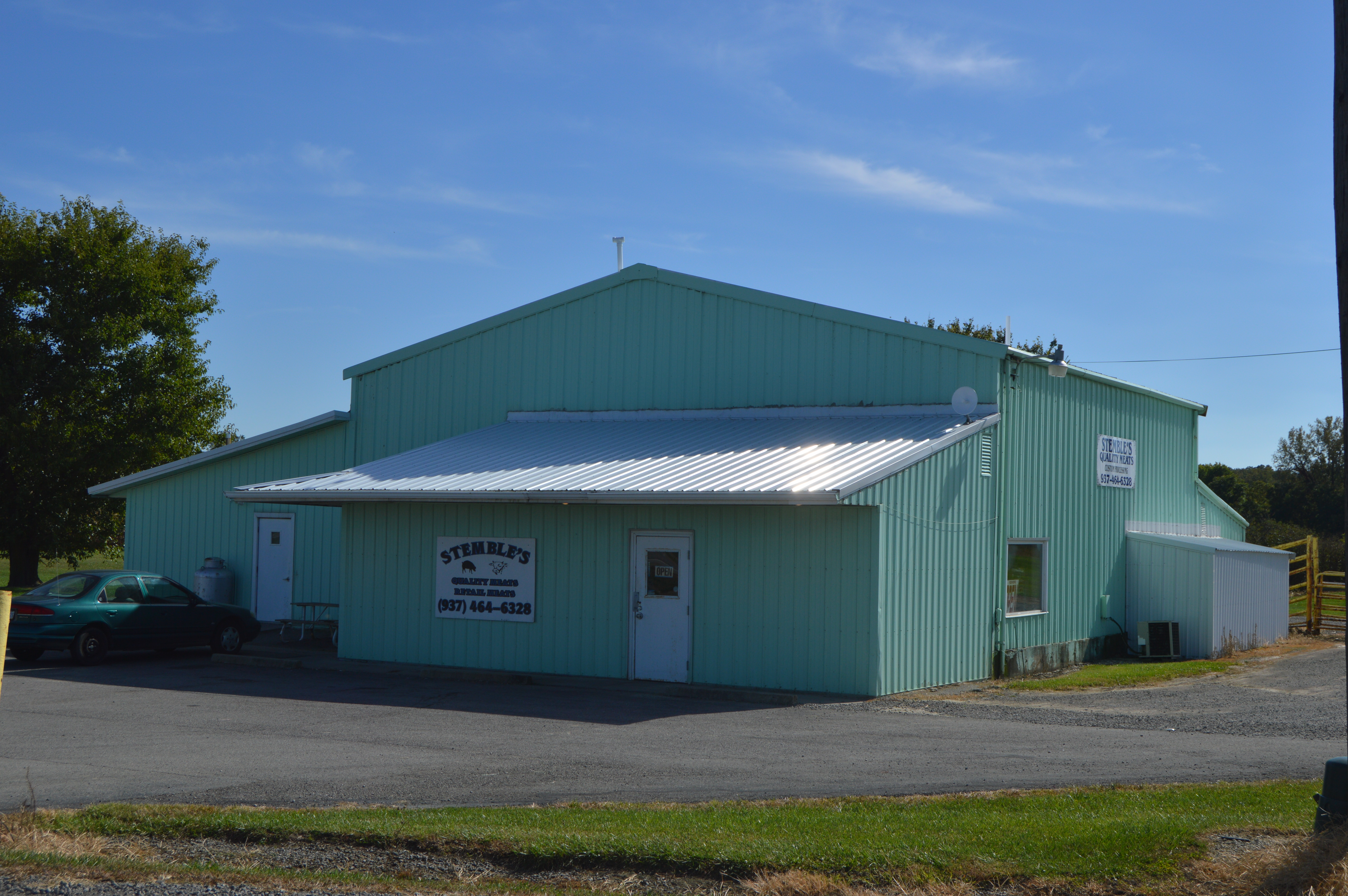 Front and western side of Stemble's Meats, a butcher shop located at the intersection of U.S. Route 68 and State Route 273 in Rushcreek Township, Logan County, Ohio, United States. It is the last remaining building at the site of Whitestown.